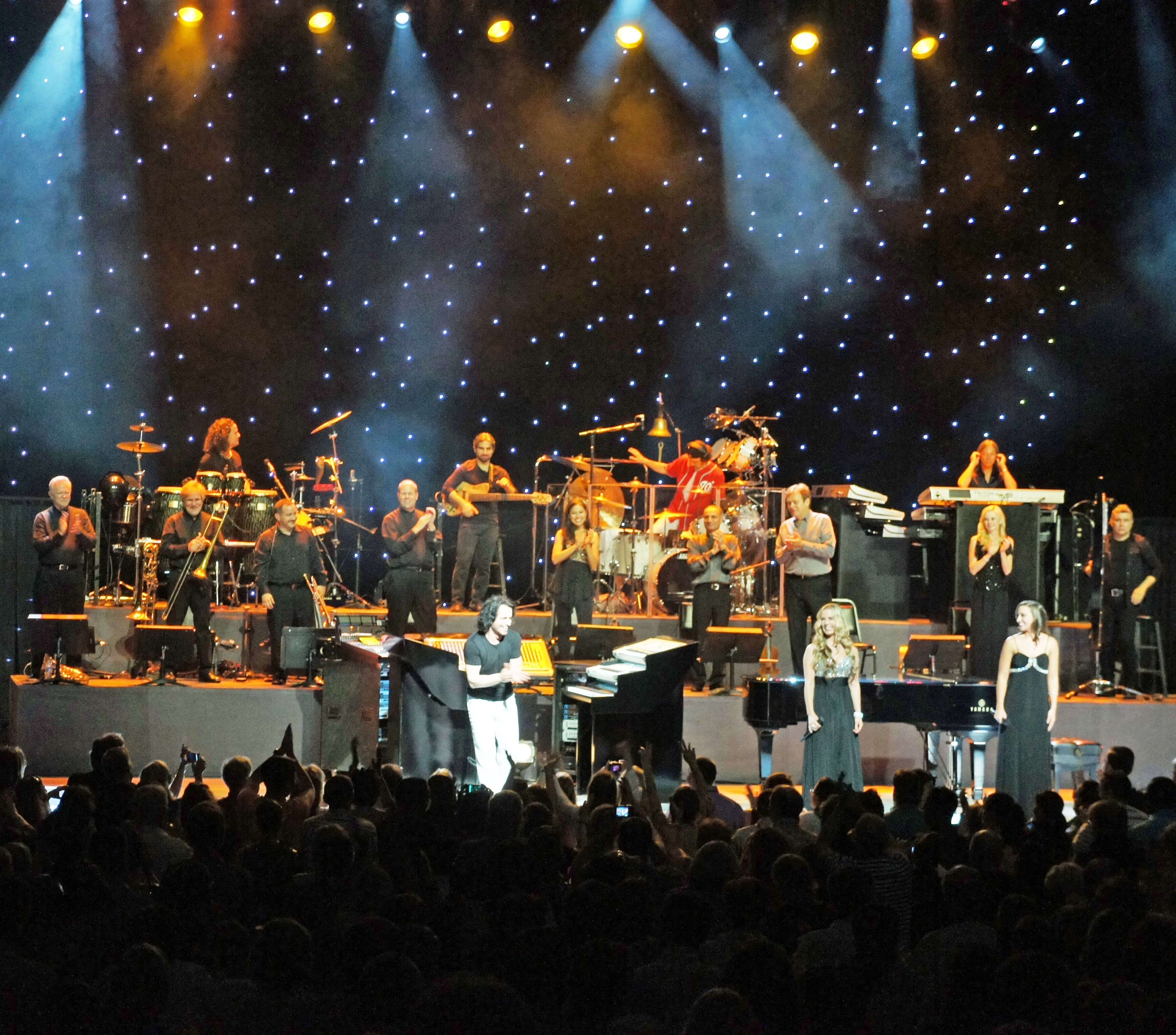 Yanni and his band and singers at the FIlene Center of the Wolf Trap National Park for the Performing Arts, in Vienna, Virginia, U.S.